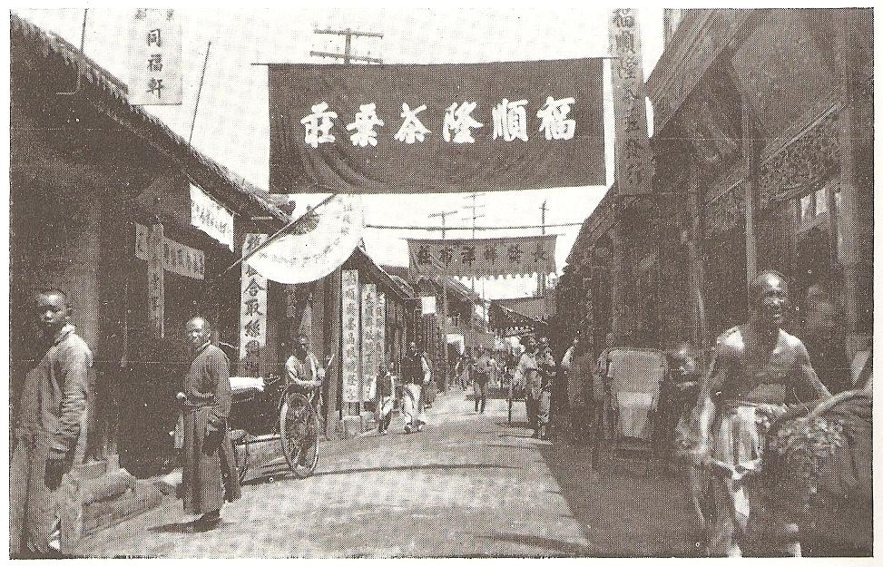 Picture of East Market Street in Kaifeng in 1910. The Synagogue was off to the right of the stores on the right side. The stele of 1489 mentions that the Kaifeng was at the intersection of Earth Market Street and Fire God temple lane. Pic from Vol. 2, p. 18 of Chinese Jews (1966) by Bishop William Charles White.